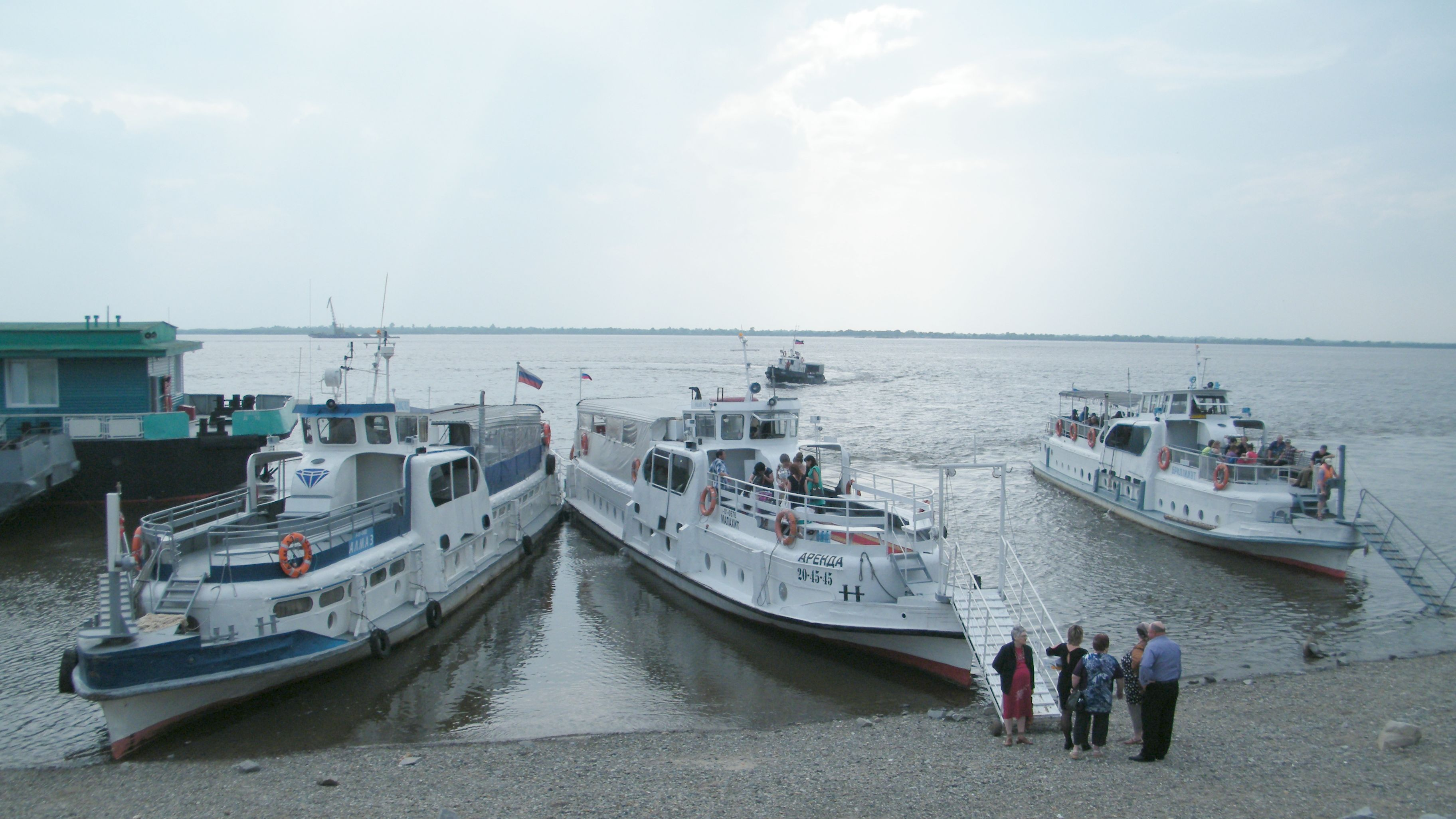 Т-х Алмаз, Бриллиант и Малахит на Амуре